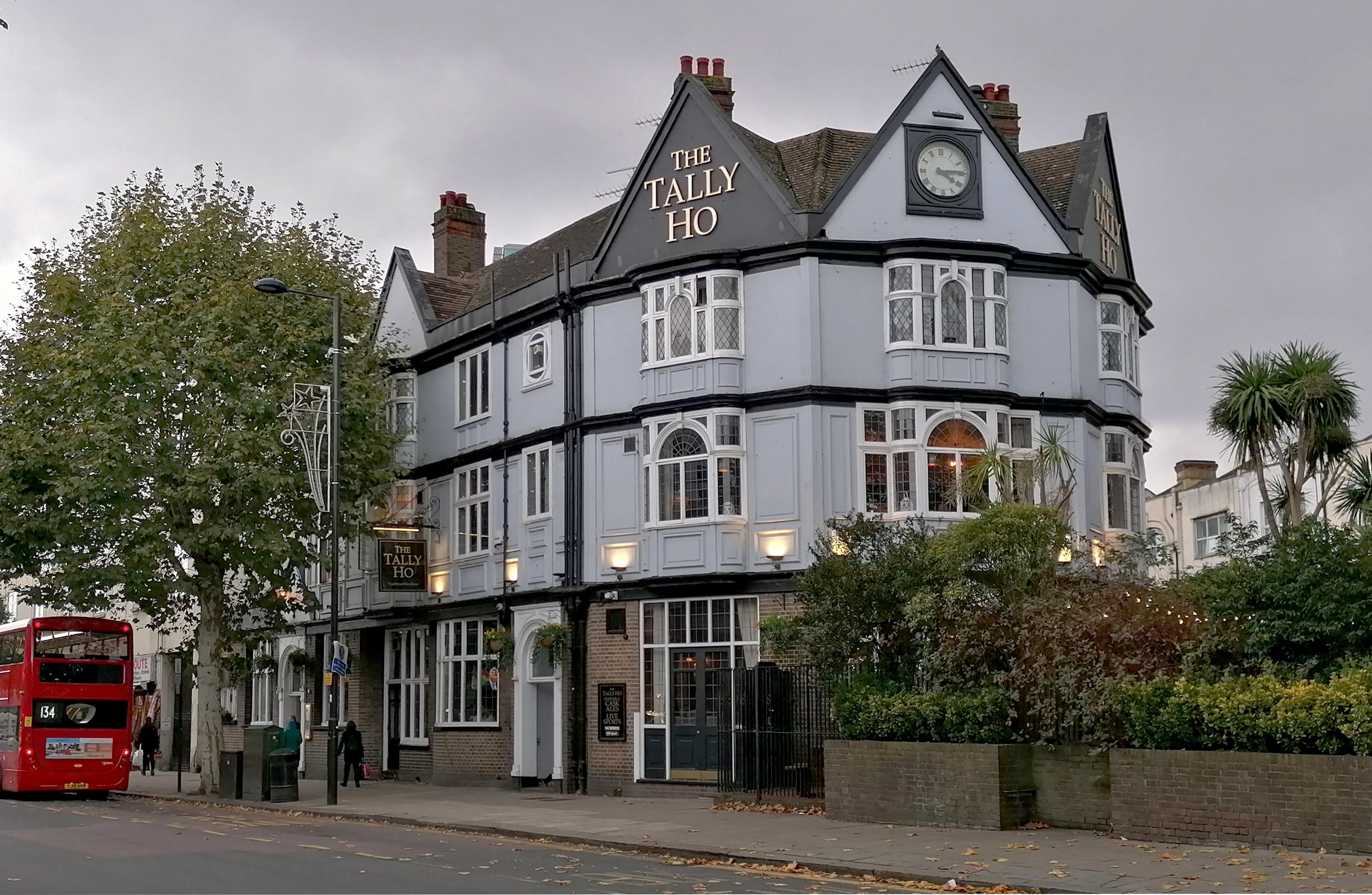 London